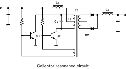 Collector Resonance Circuit